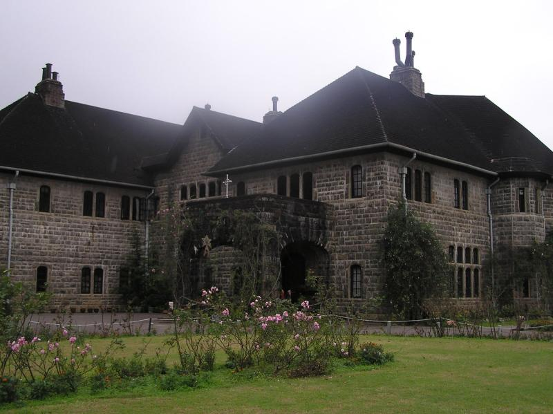 Adisham banglow